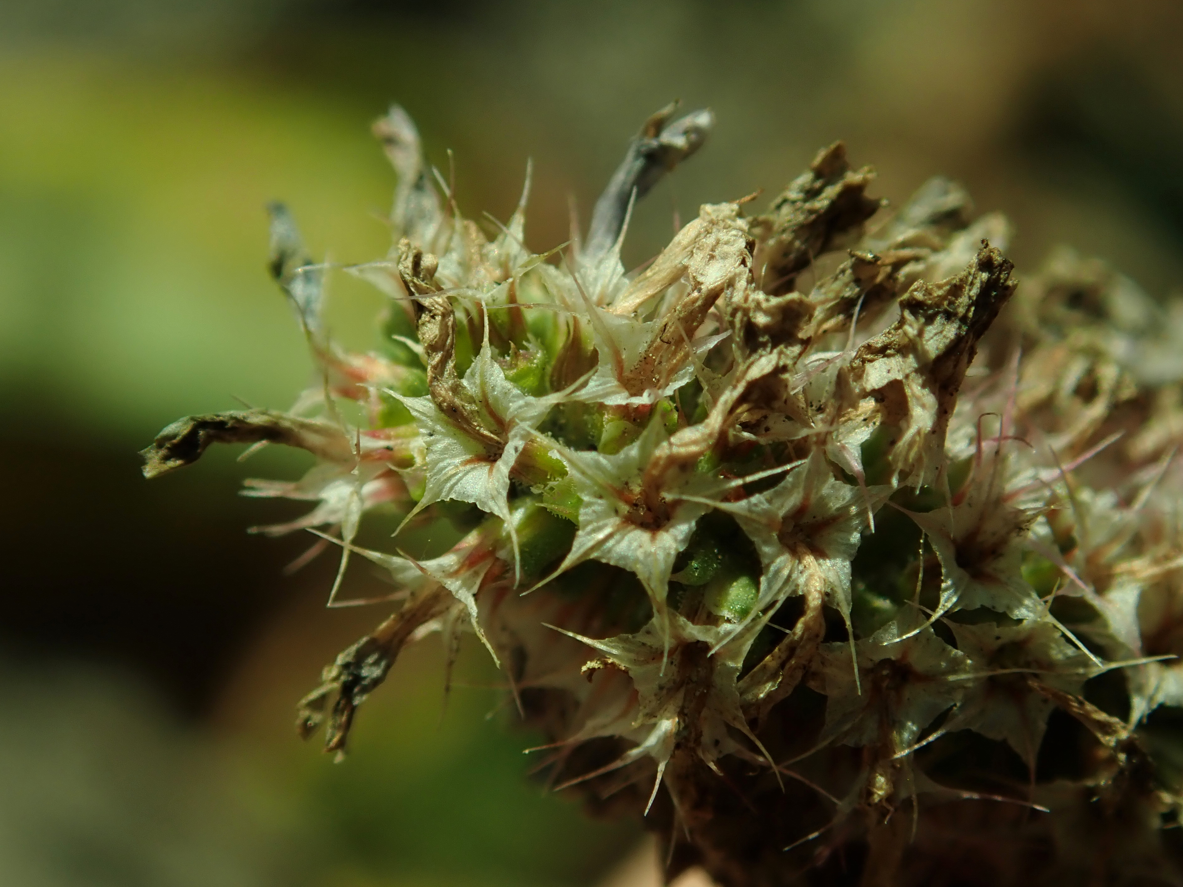 Limonium suworowii fruit, allotment garden in Szczecin, West Pomeranian Voivodeship, Poland.